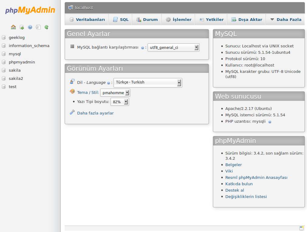 Screenshot of the main page of phpMyAdmin version 3.4.2